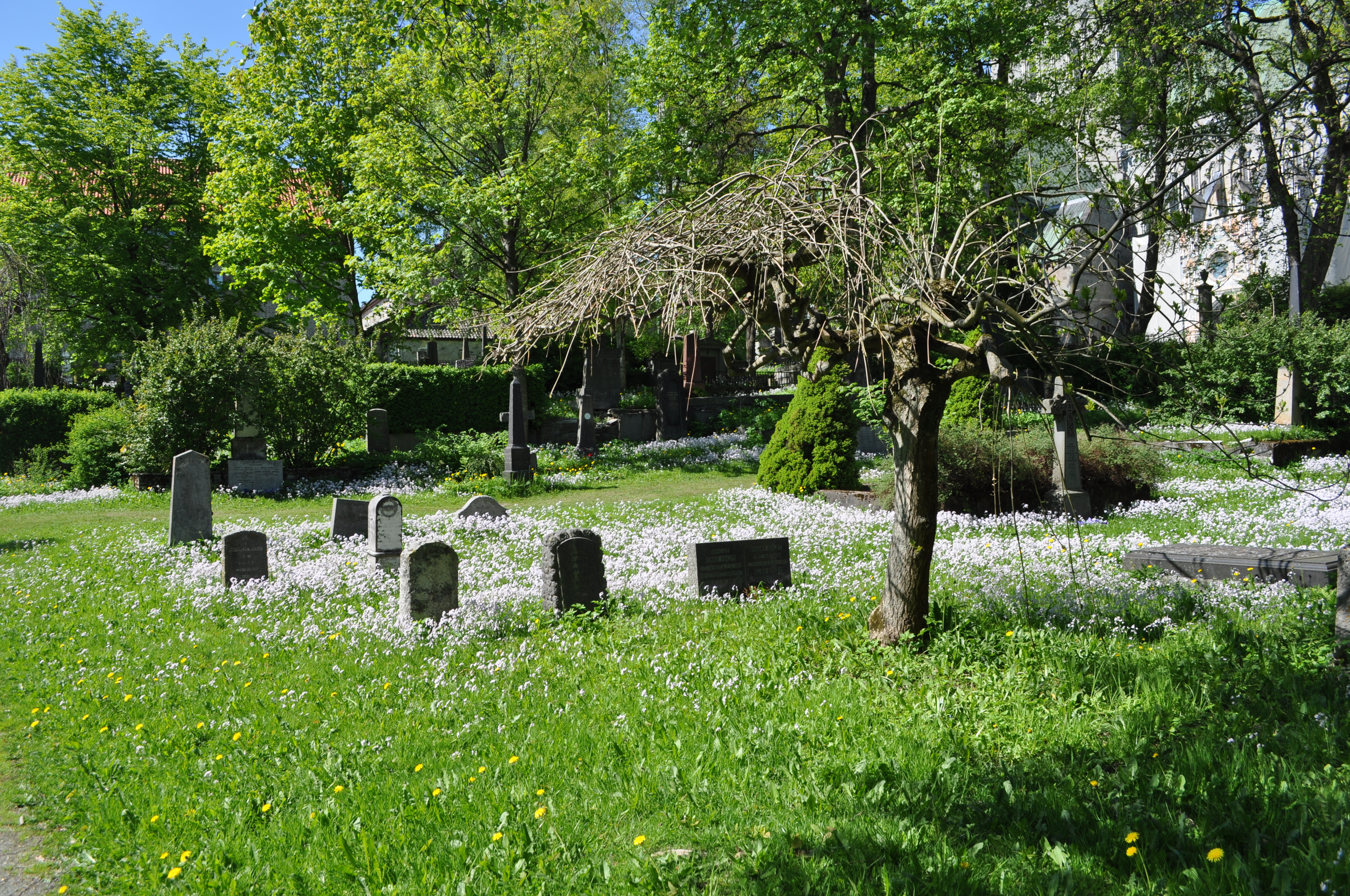 Cemetery near Nidaros Cathedral in Trondheim